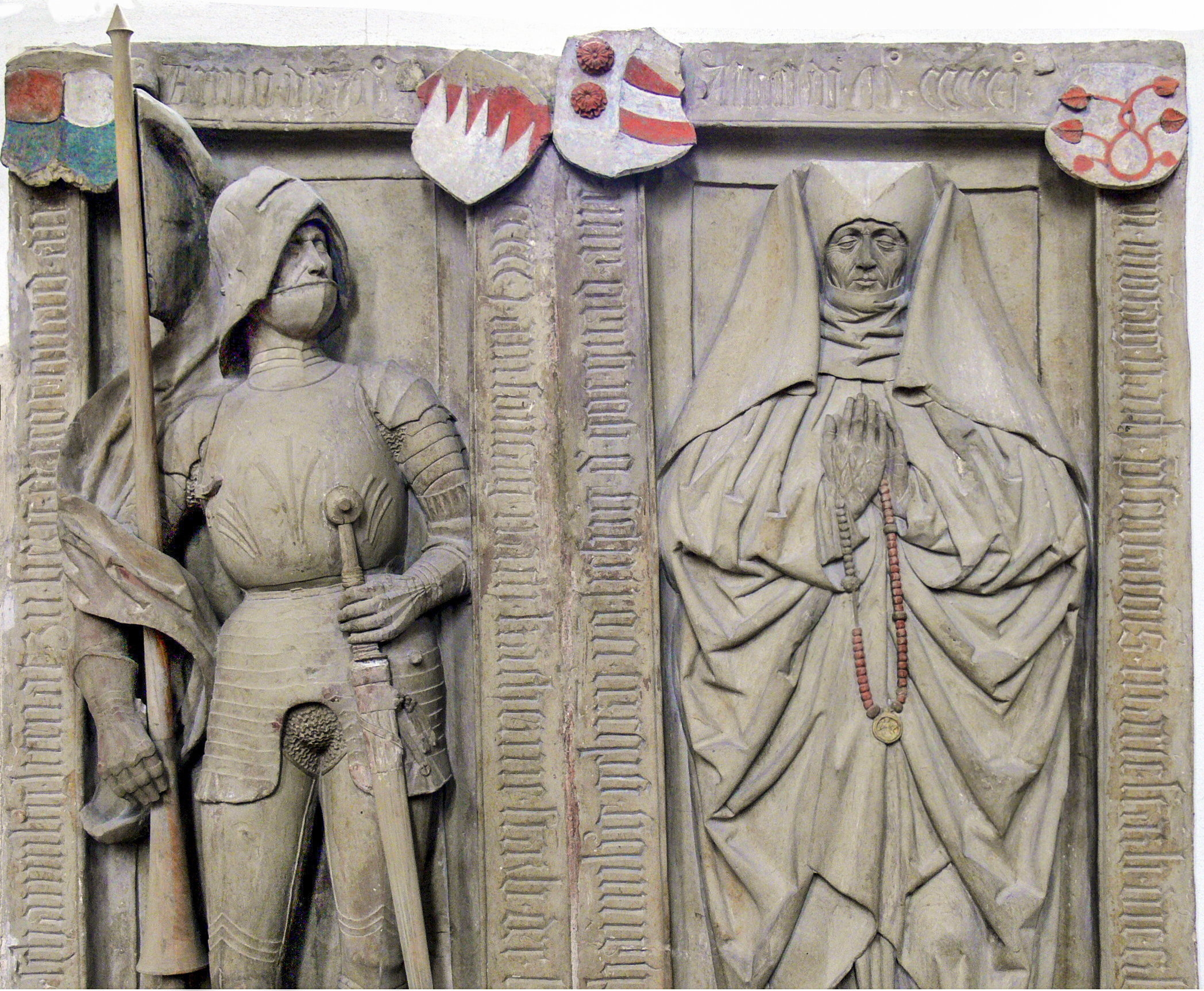 Haßfurt ( Lower Franconia ). Knights chapel: Epitaph for Hans ( + 1501 ) and Brigitta of Schaumberg.